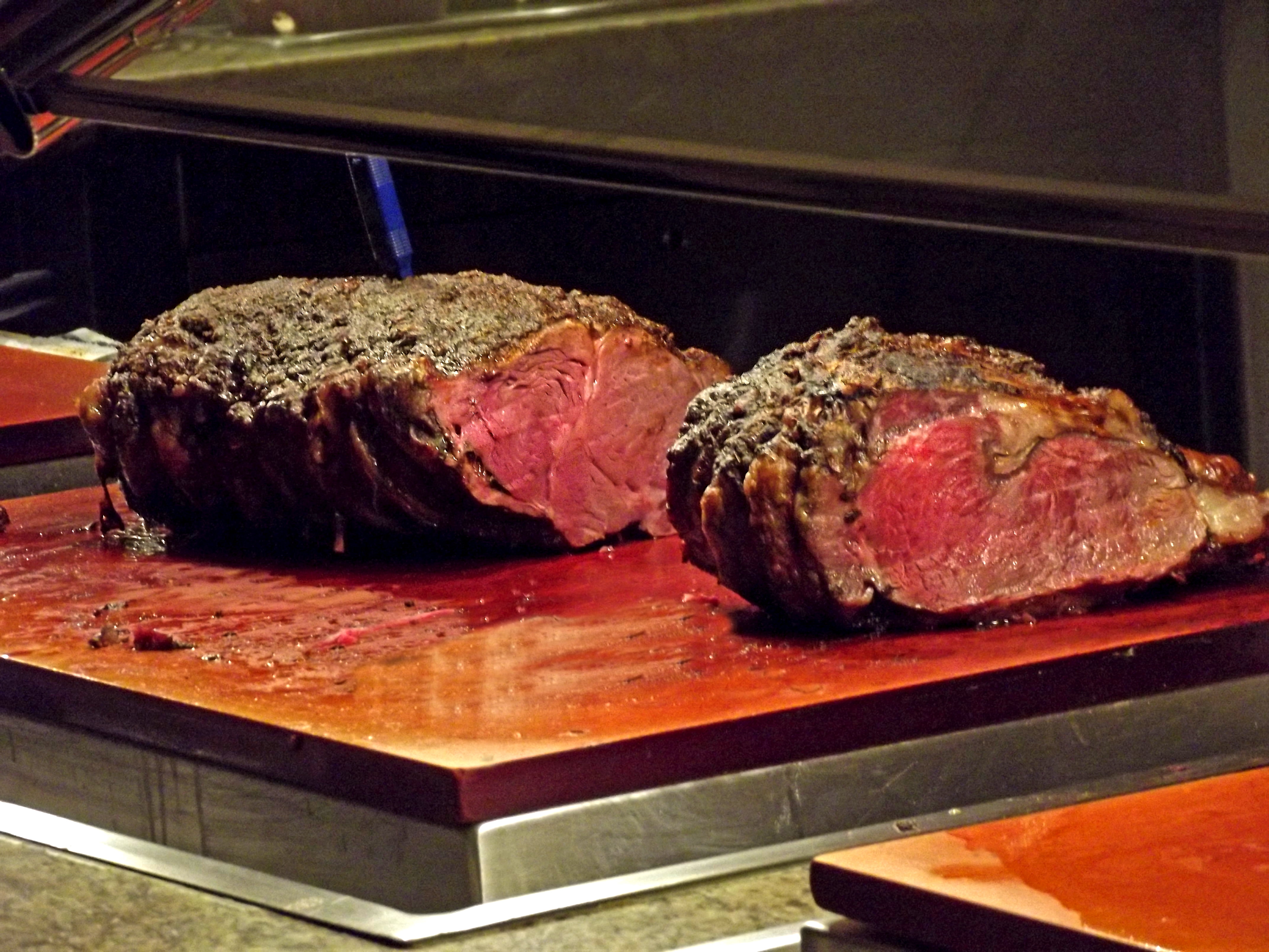 Prime rib at the Carnival World Buffet, The Rio, Las Vegas, Nevada